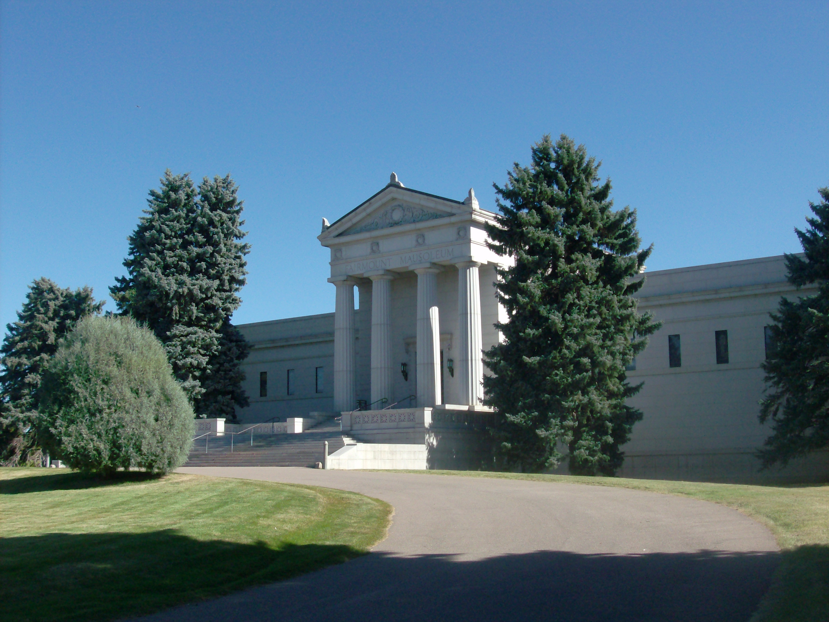 A view of the Fairmount Mausoleum at Fairmount Cemetery in Denver, Colorado.